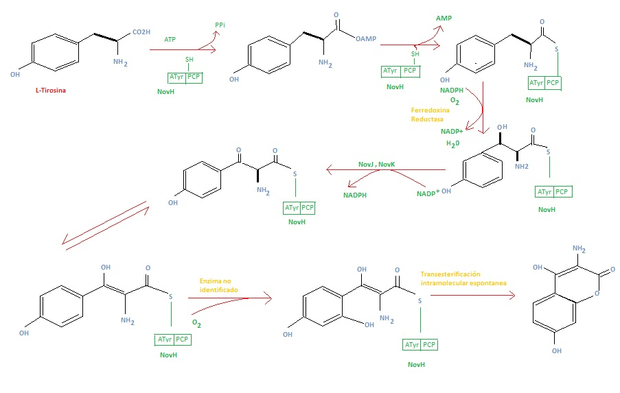 Figura 2